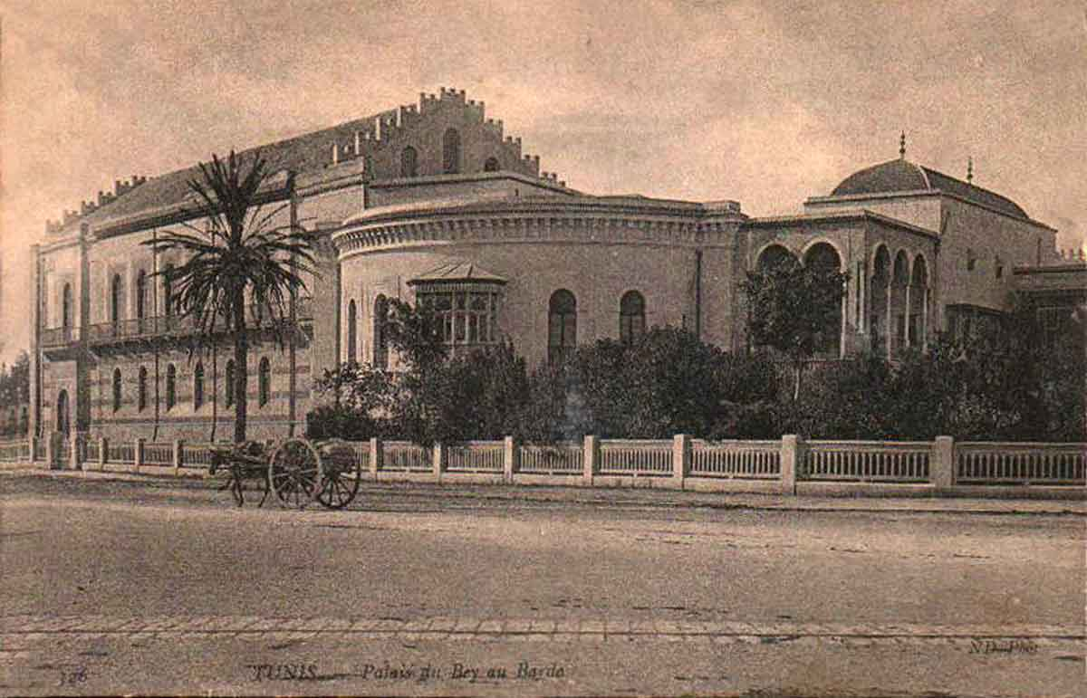 Palais du Bey à Bardo